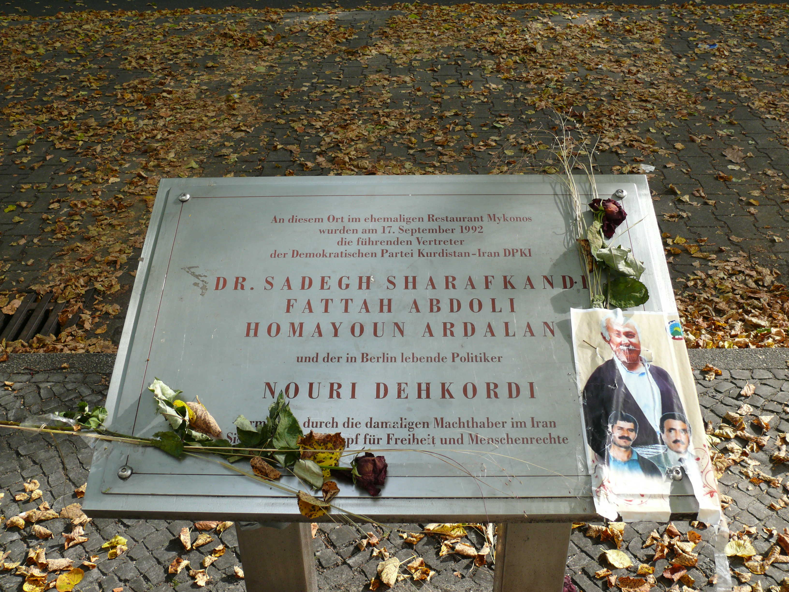 Berlin-Wilmersdorf Prager Straße memorial plate for the victims of the Mykonos assasination attempt